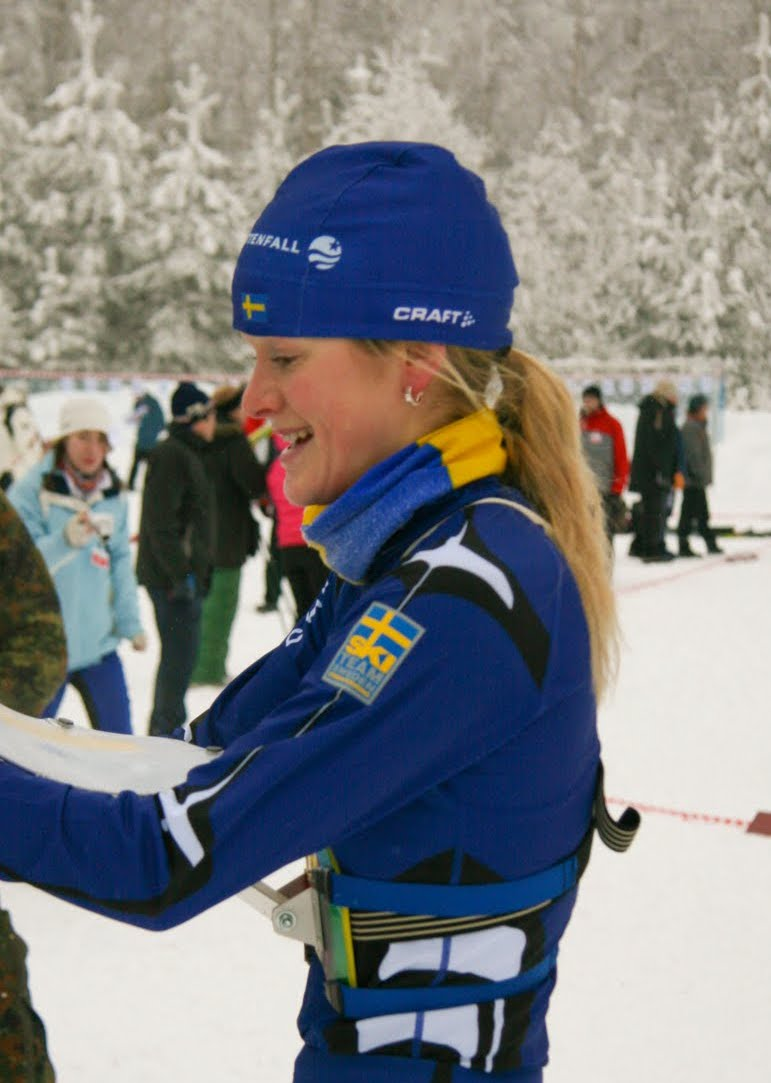 Helene Söderlund. World Cup 2010, Russia, Saint-Petersburg.